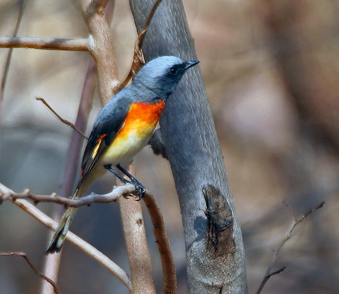 Pericrocotus cinnamomeus at Deer Park in Shamirpet, Rangareddy district, Andhra Pradesh, India.